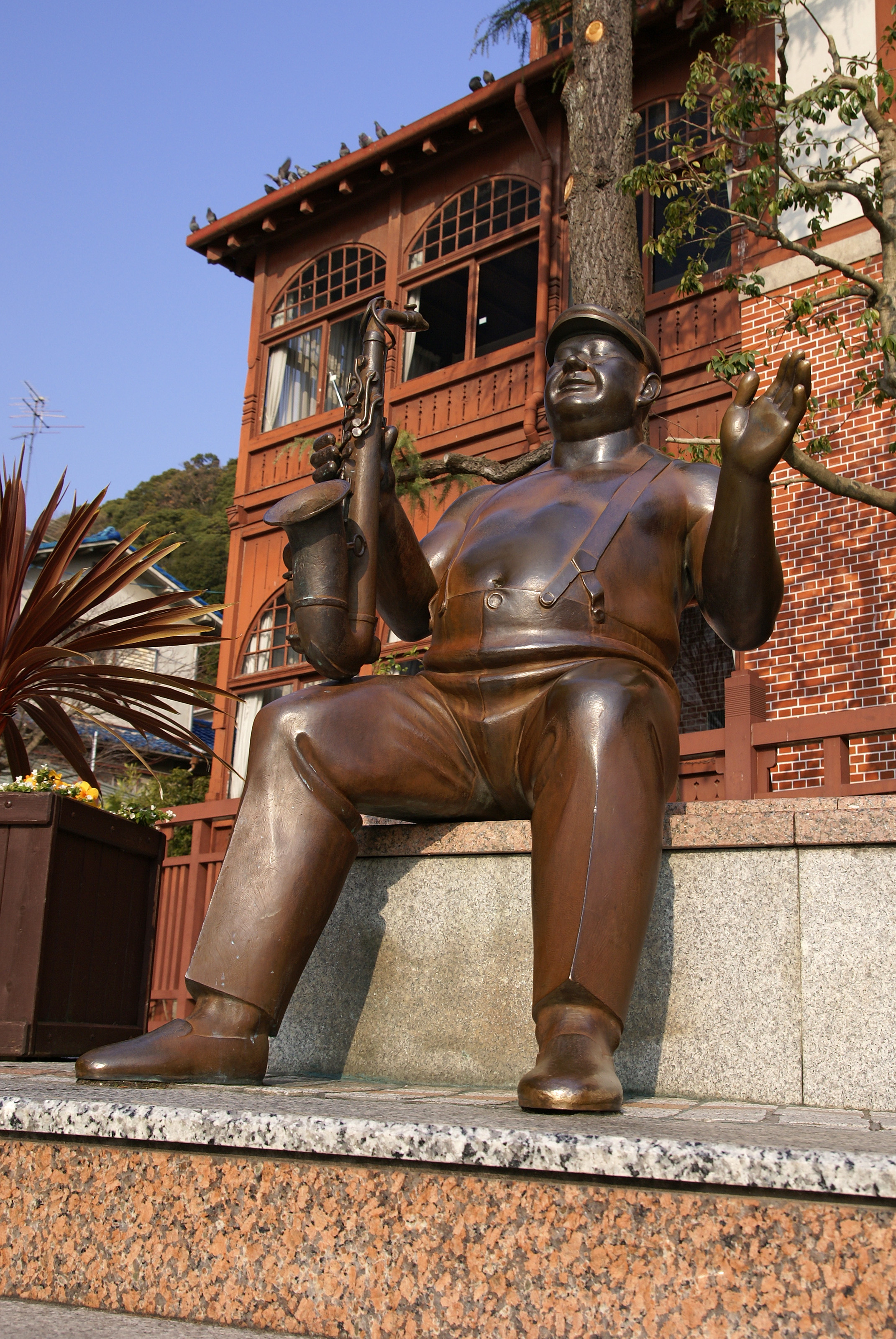 Kitano-cho Square in Kobe, Hyogo prefecture, Japan